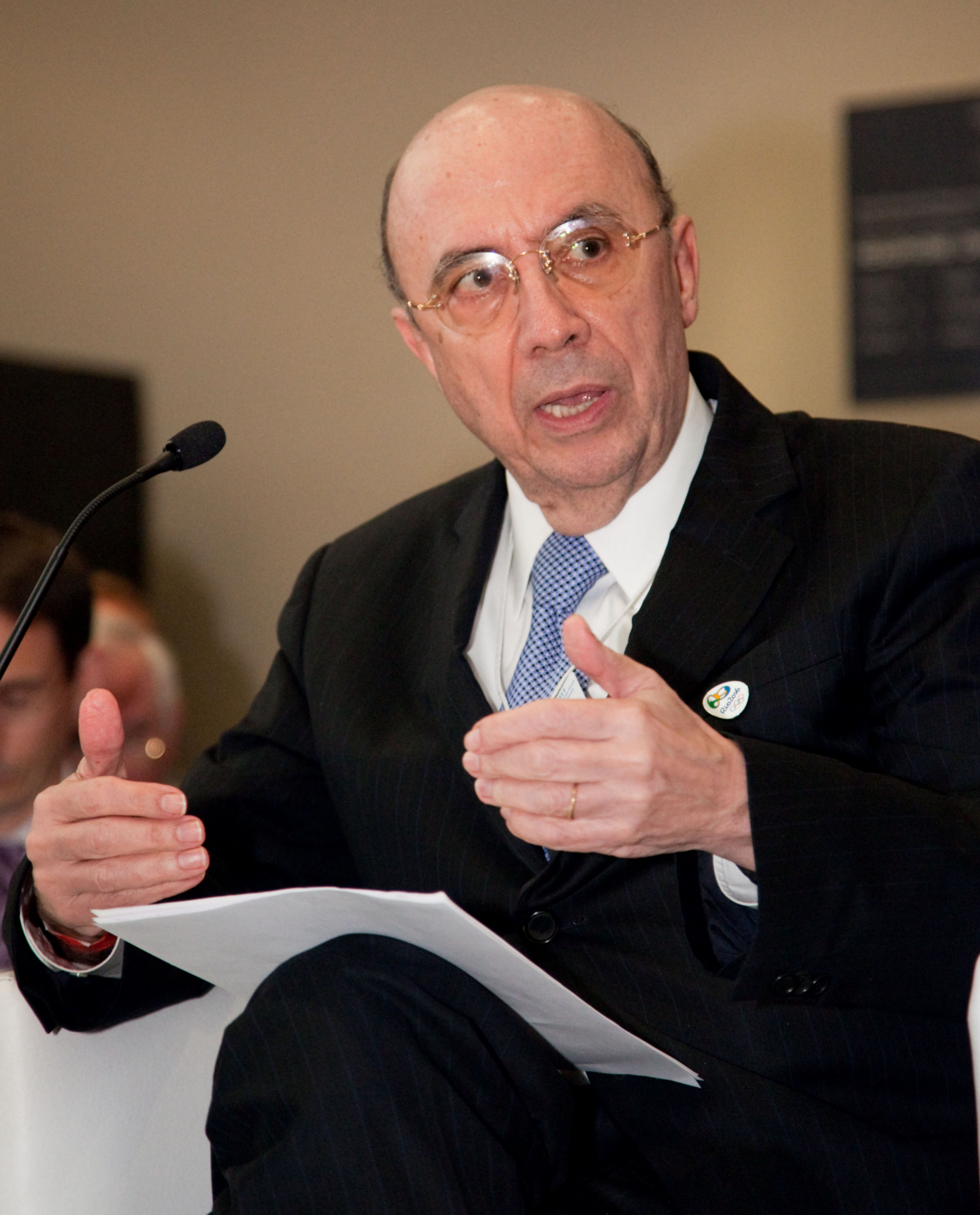 RIO DE JANEIRO/BRAZIL, 28APR11 - Henrique Meirelles, Adviser, Olympic Public Authority, Brazil, captured during the World Economic Forum on Latin America in Rio de Janeiro, Brazil, April 28, 2011. Copyright World Economic Forum ( by Alexandre Campbell